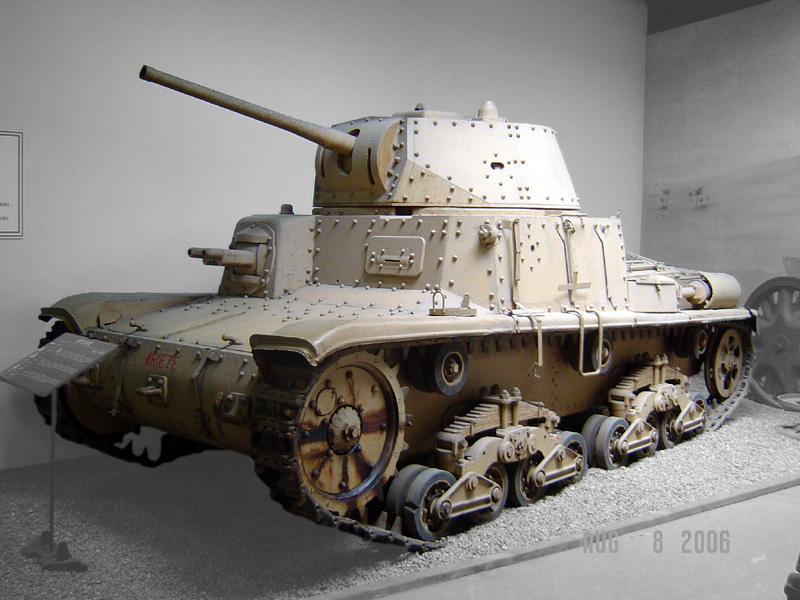 M15/42 on display at the Musée des Blindés in Saumur. The picture taken August 8, 2006.